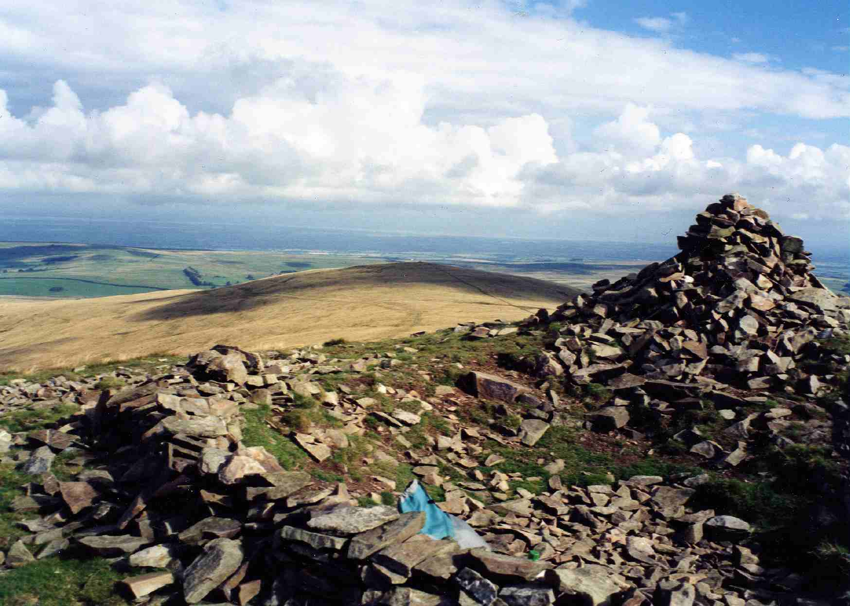 Personal picture taken by Mick Knapton